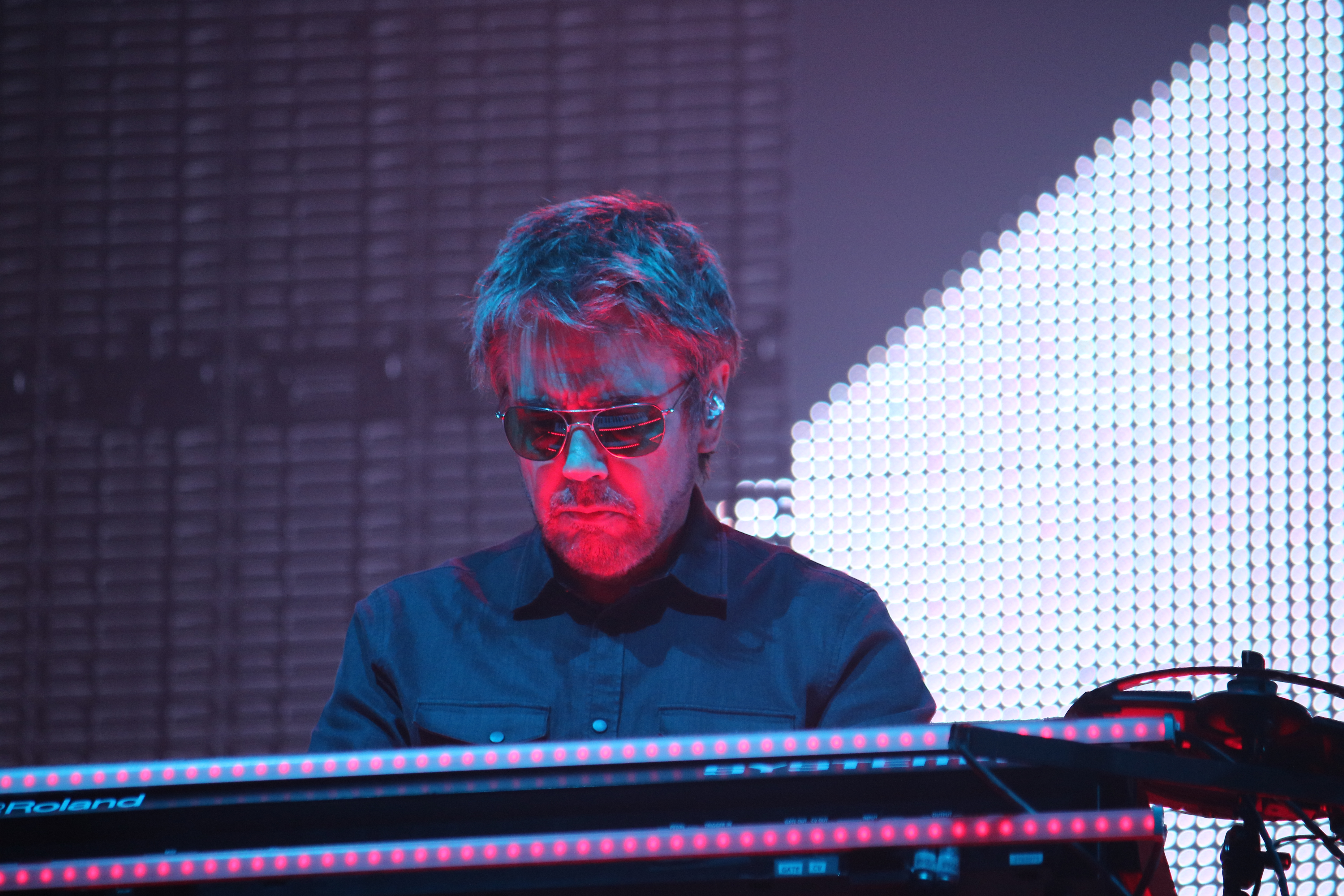 Jean-Michel Jarre plays on keys at a concert in Bratislava, 2016.